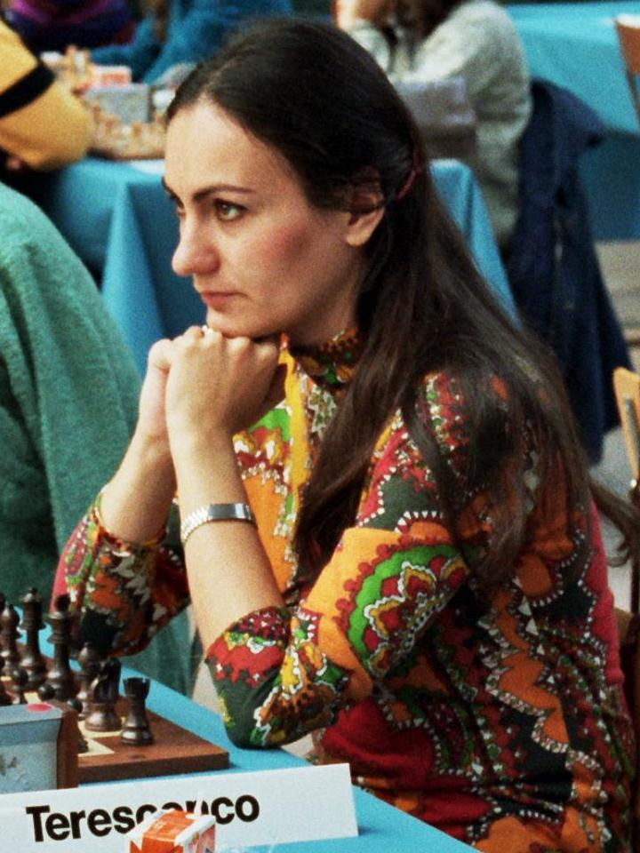 Daniela Nutu-Terescenko (Nutu-Gajic), Chess Olympiad 1982 in Luzern, Photographer Gerhard Hund.